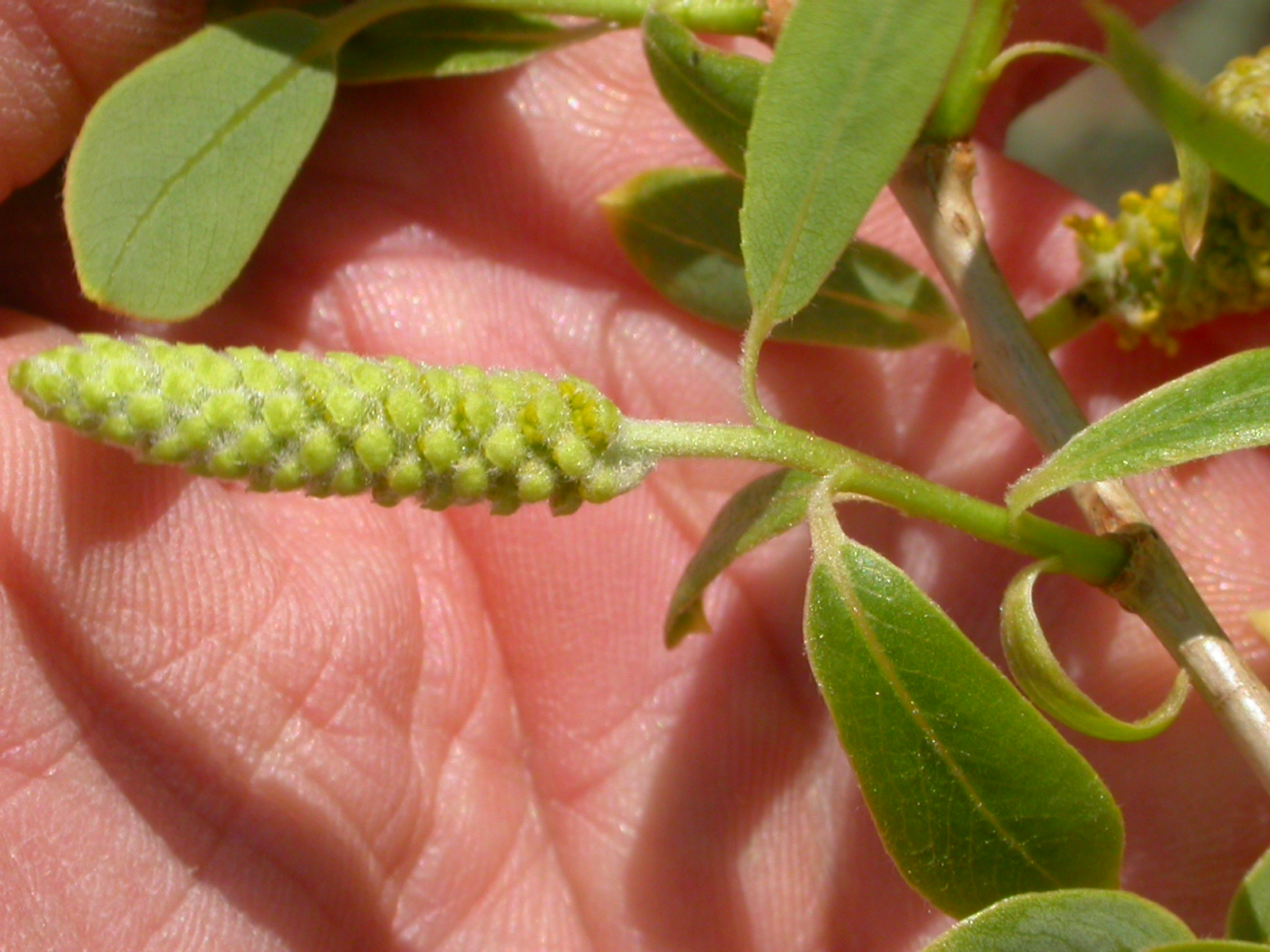 This aborescent willow, Salix amygdaloides, is somewhat common along the main riparian courses in this area (e.g., Telegraph Creek) but not along the minor ones (e.g., Box Elder Creek).